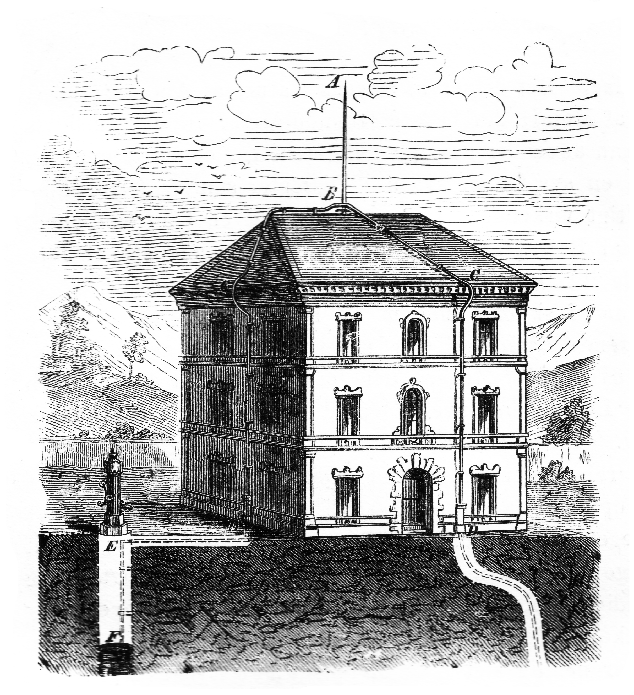 "Opfindelsernes Bog" (Book of inventions) 1878 by André Lütken, Ill. 299.